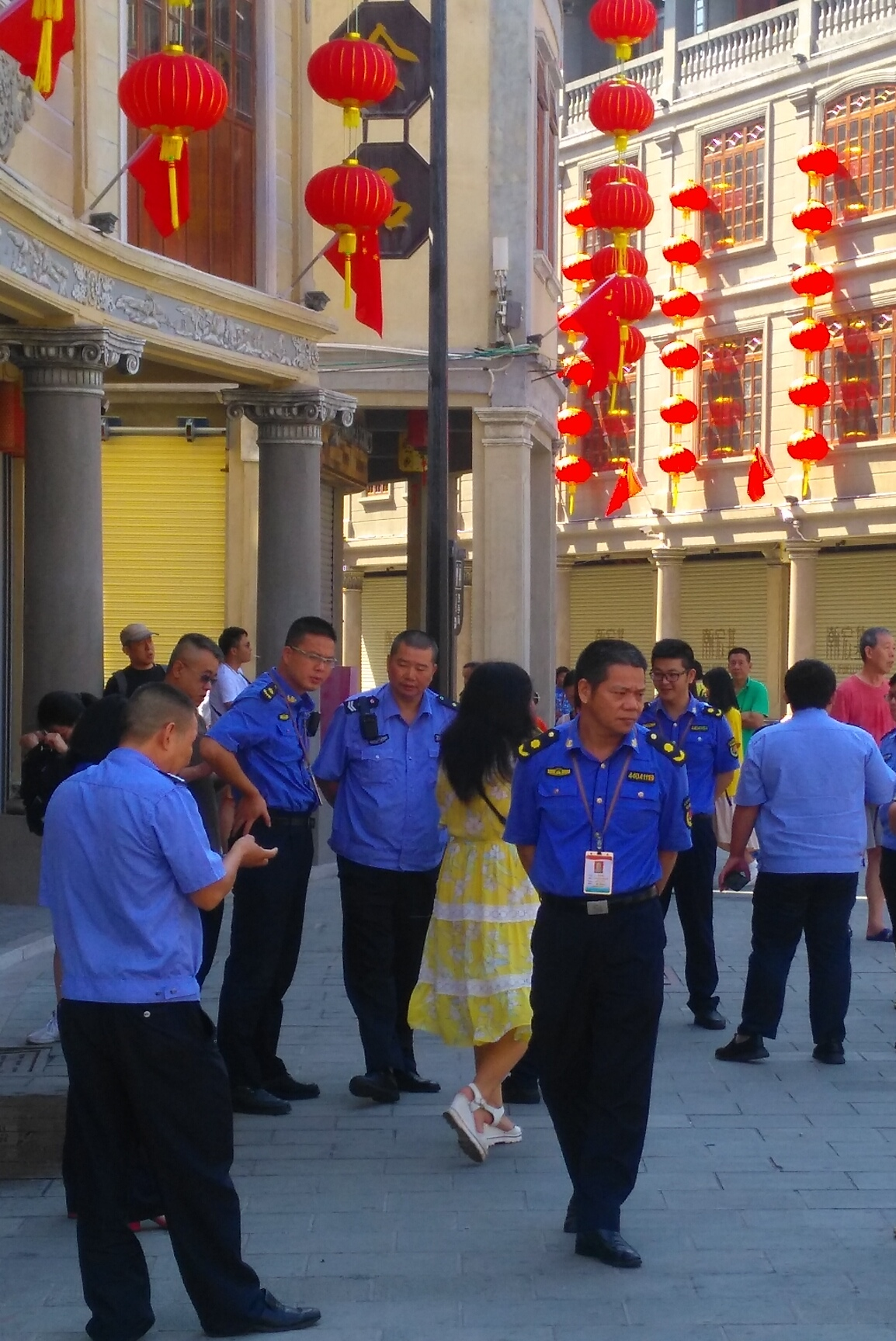 Chengguan Officials in Little Park, Shantou City, Guangdong Province, China.